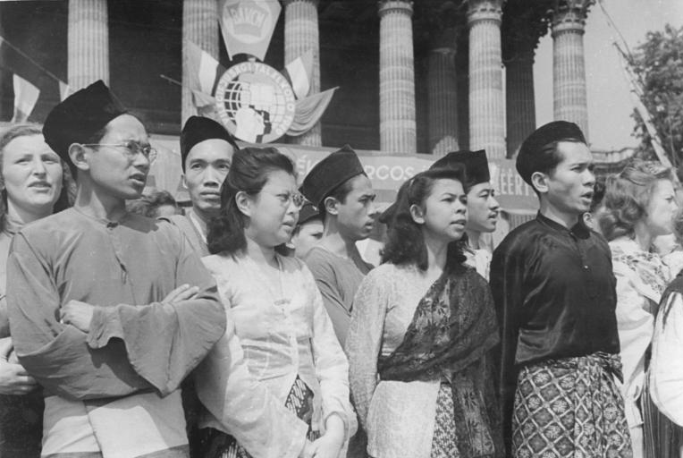 Indonesian delegation at the 2nd World Festival of Youth and Students (Budapest, 1949)